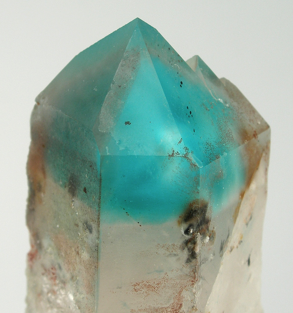 Ajoite, Quartz Locality: Messina mine, Messina District, Limpopo Province, South Africa (Locality at ) Size: small cabinet, 6.9 x 3.4 x 2.5 cm Ajoite included in Quartz (phantom) This is a razor-sharp crystal with a termination so sharp you can literally cut yourself on it. The quartz hosts an internal phantom generation of quartz, that is richly included by powder blue ajoite. Now, often the inclusions are dispersed in the quartz , but seldom do you see a phantom within, concentrating the color as this one does. The crystal is complete all around, and shows extraordinary clarity looking through to the phantom zone within. I have seen literally hundreds of these, and in this size range, few have stood out to me as starkly as this piece, which I saw at the Munich show with a direct source. Moreover, it is complete and sharp, and shows off the inclusions without need of polishing. It really is one of the sharpest and finest in its size class. After cleaning, we found that it is technically a floater - rough at the bottom, but microcrystallized and complete.